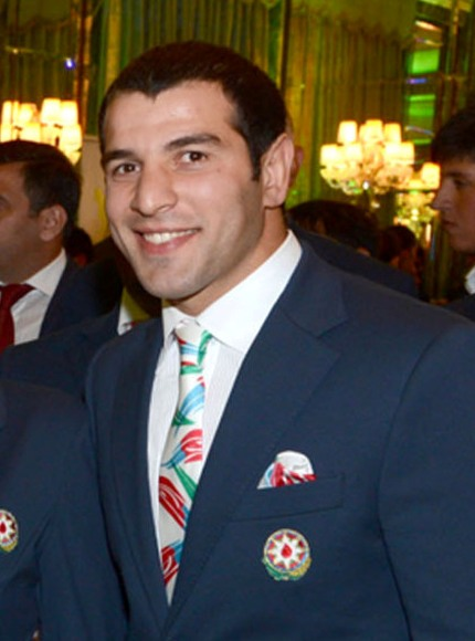 Elnur Mammadli. “Day of Azerbaijan” ceremony on the sidelines of the 30th Summer Games in London